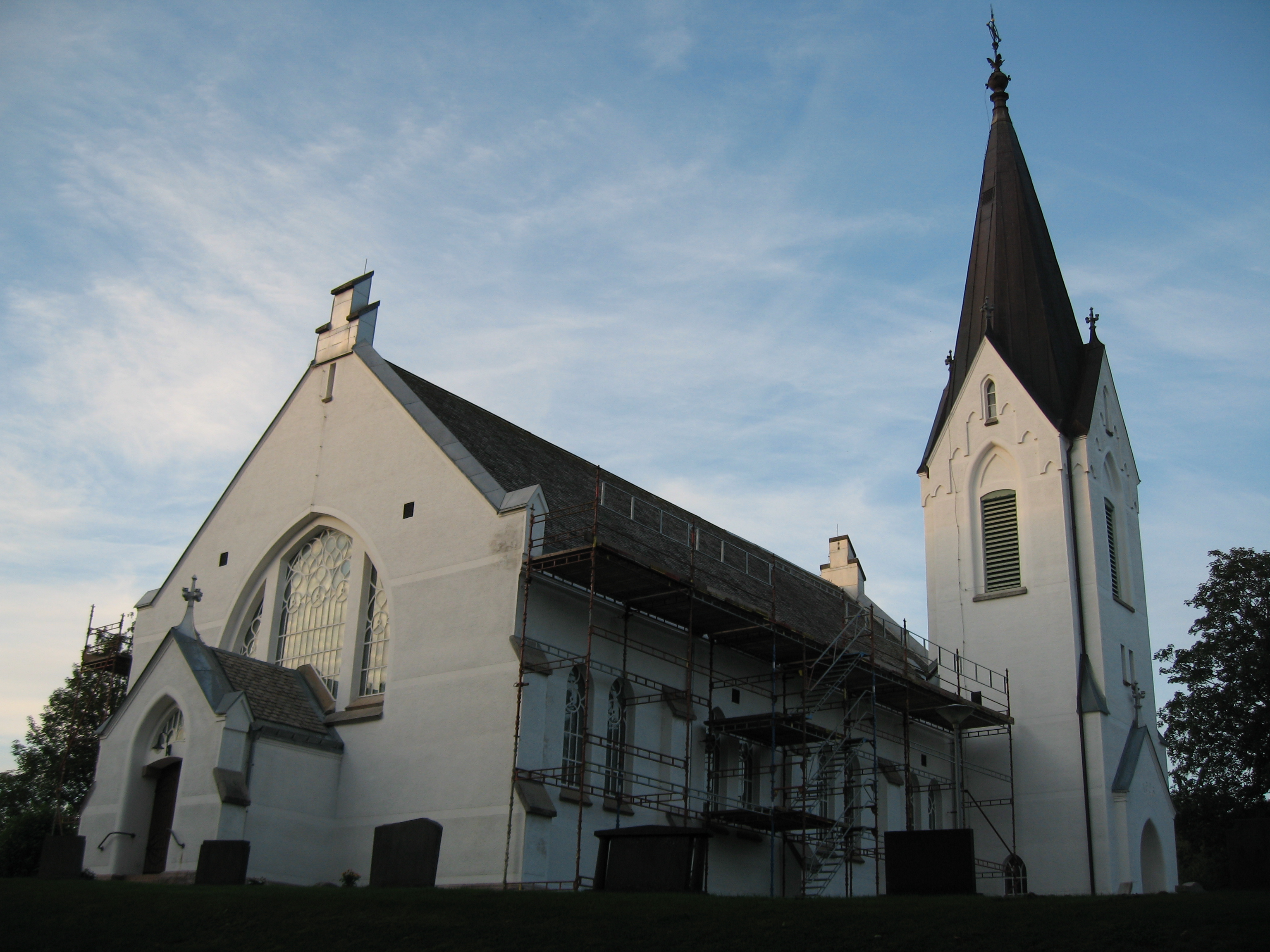 Edsleskog church in Dalsland, Sweden.